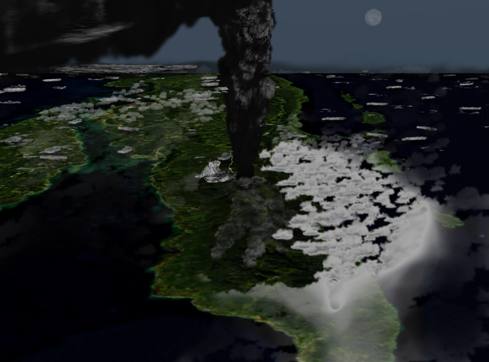 Illustration of what the Toba eruption might have looked like around 42 km above northern Sumatra.